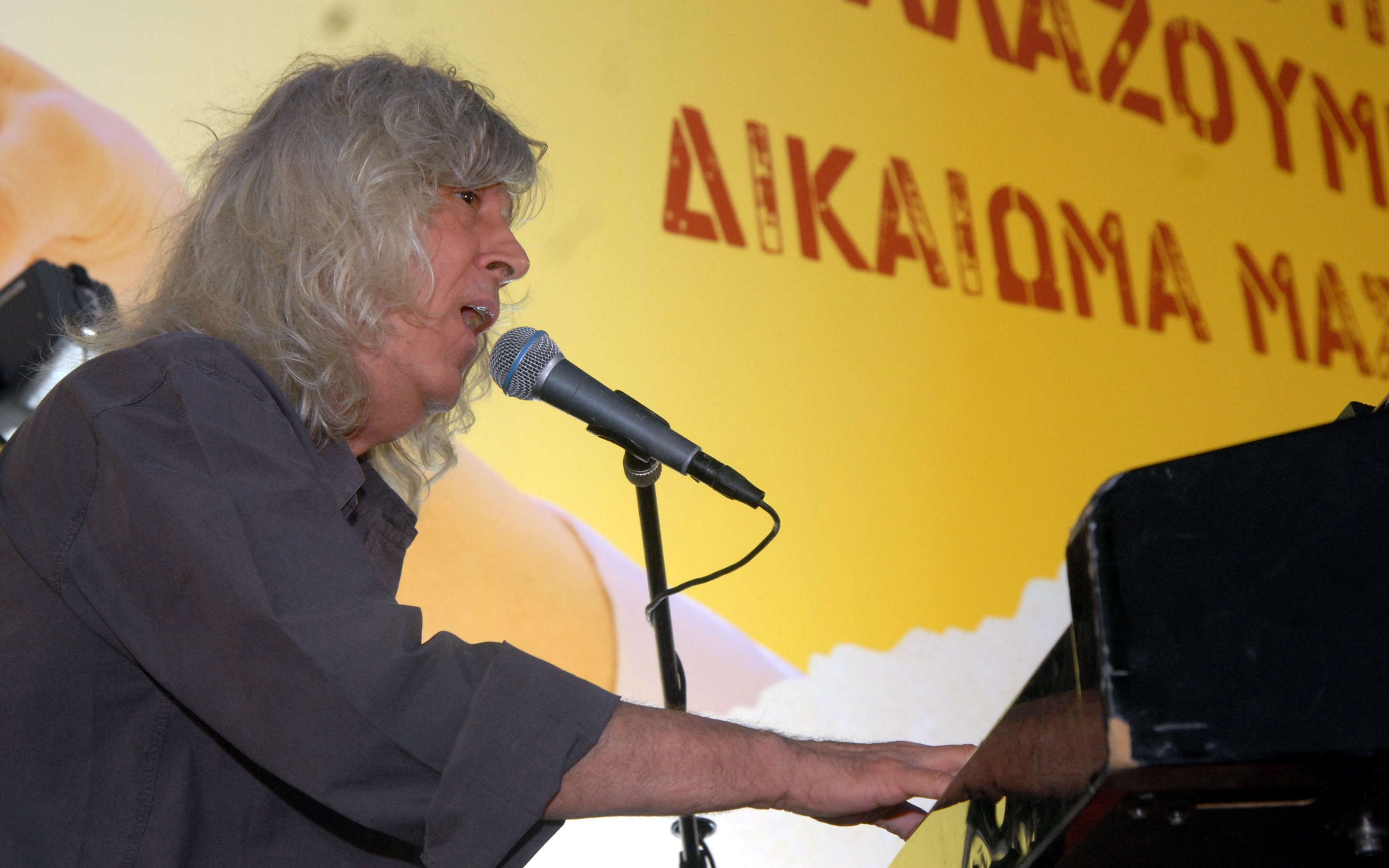 Greek singer and composer Loukianos Kilaidonis sings at a Coalition of Radical Left gathering at Kotzia square, Athens.